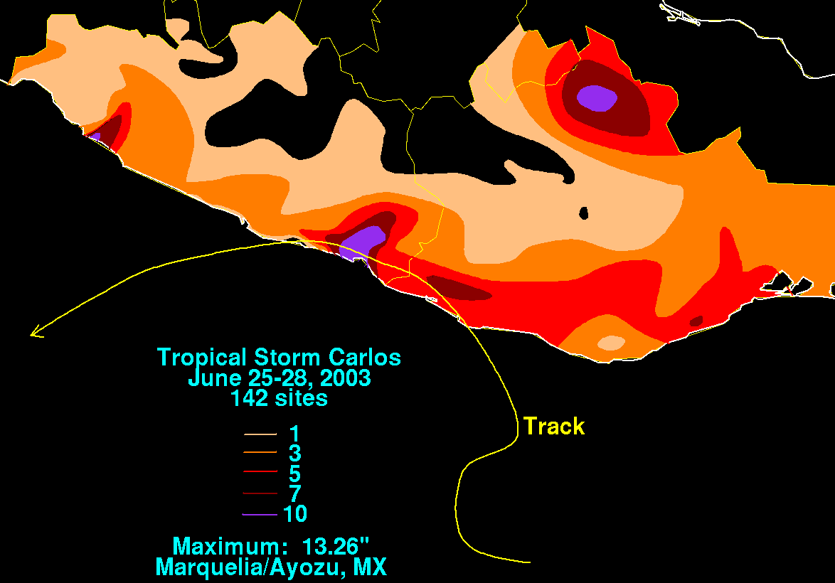 Storm total rainfall map of Tropical Storm Carlos during June 2003.